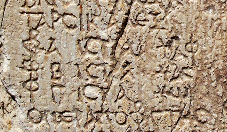 Diocletian's prices edict, one of 4 remaining fragments embedded in the medieval church of St. John Chrysostomos in Geraki, Greece. This close up shows the prices for 3 grades of linen (alpha, beta, gamma).